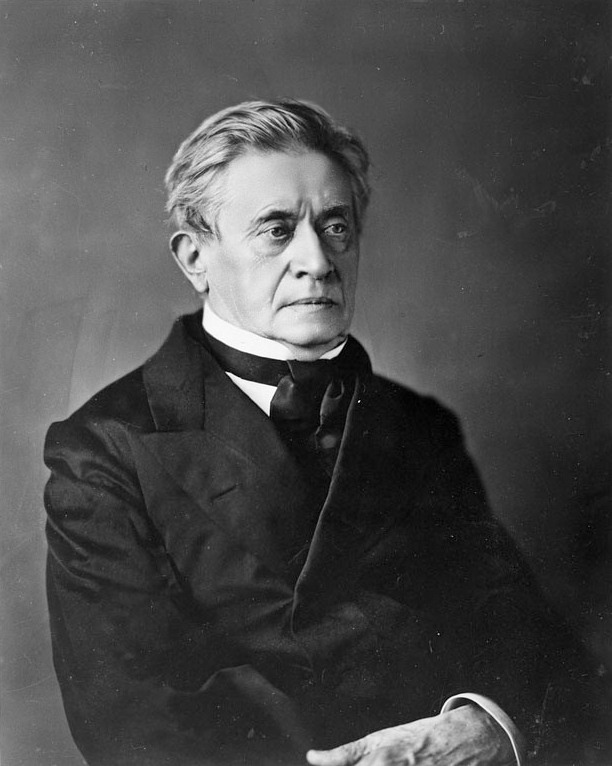 Photograph of Joseph Henry